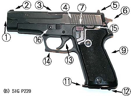 SIG-Sauer P220, description for parts of handgun.